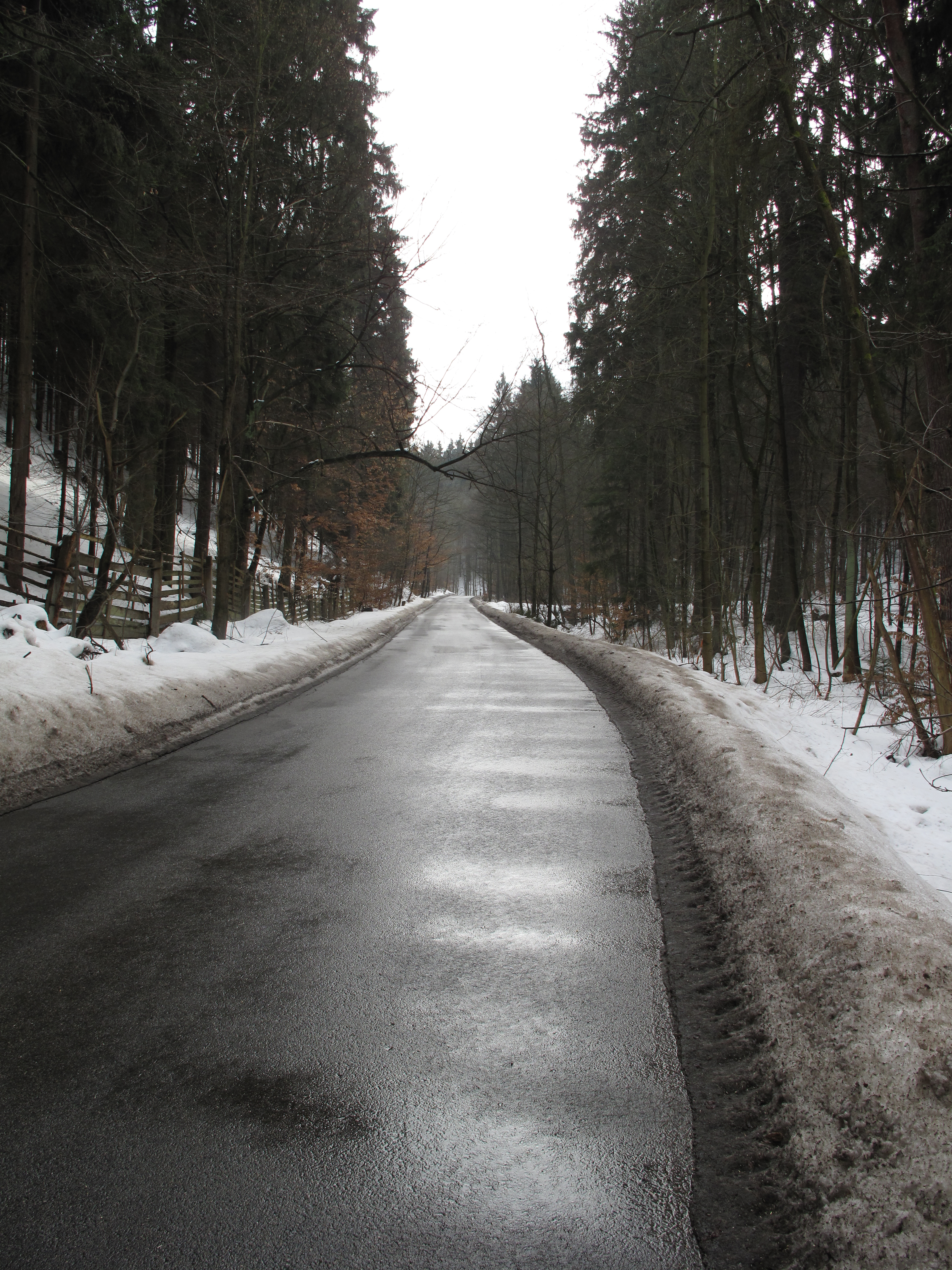 Road II/107 between Čakovice village and Kamenice village, Prague-East District, Czech Republic.